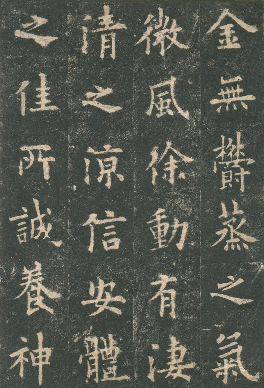 A page of a Song Dynasty stone rubbing of 九成宮醴泉銘 by 歐陽詢